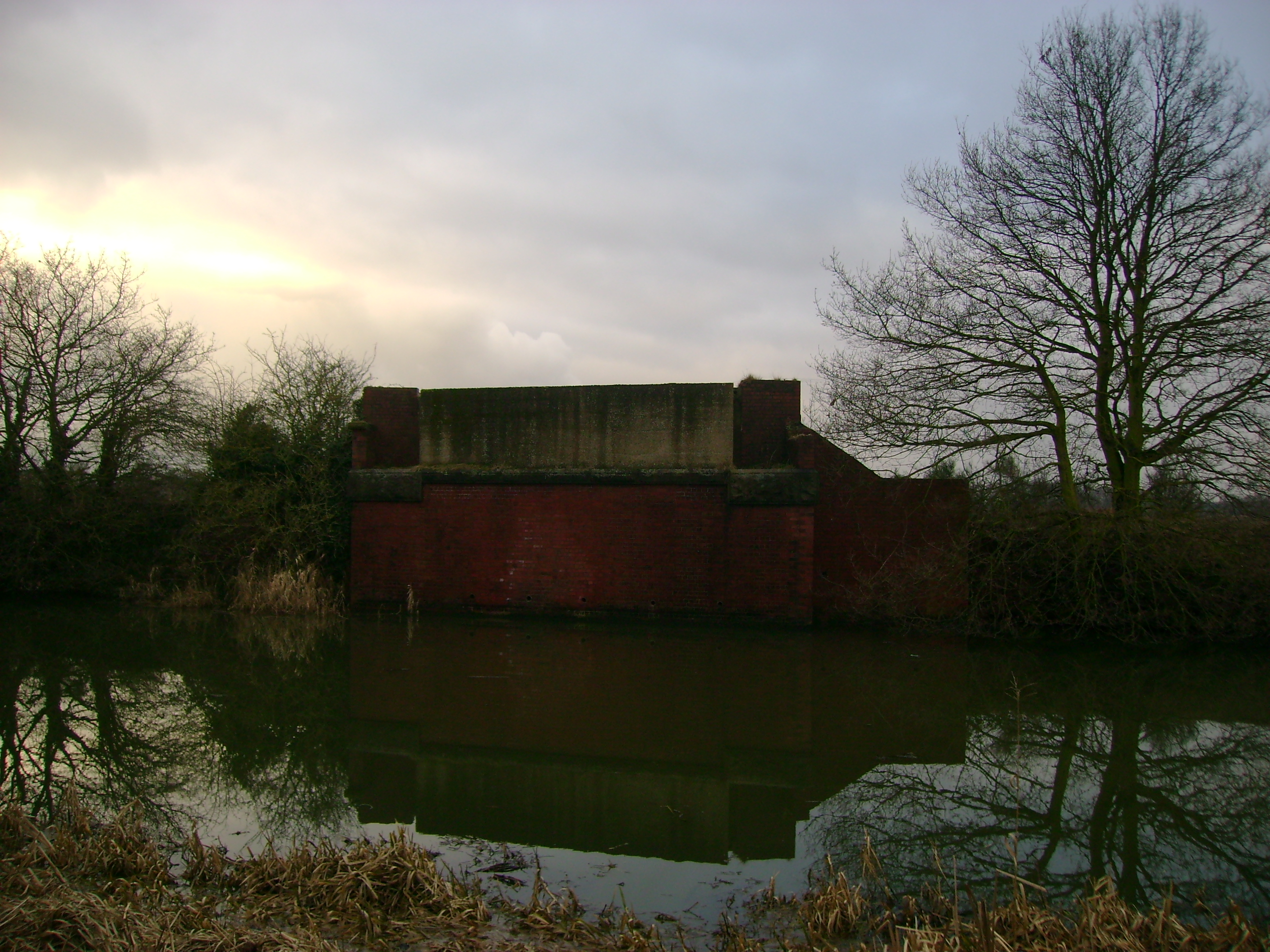 Selby Canal. Dismantled Railway Bridge. All that remains are the supports at either side.